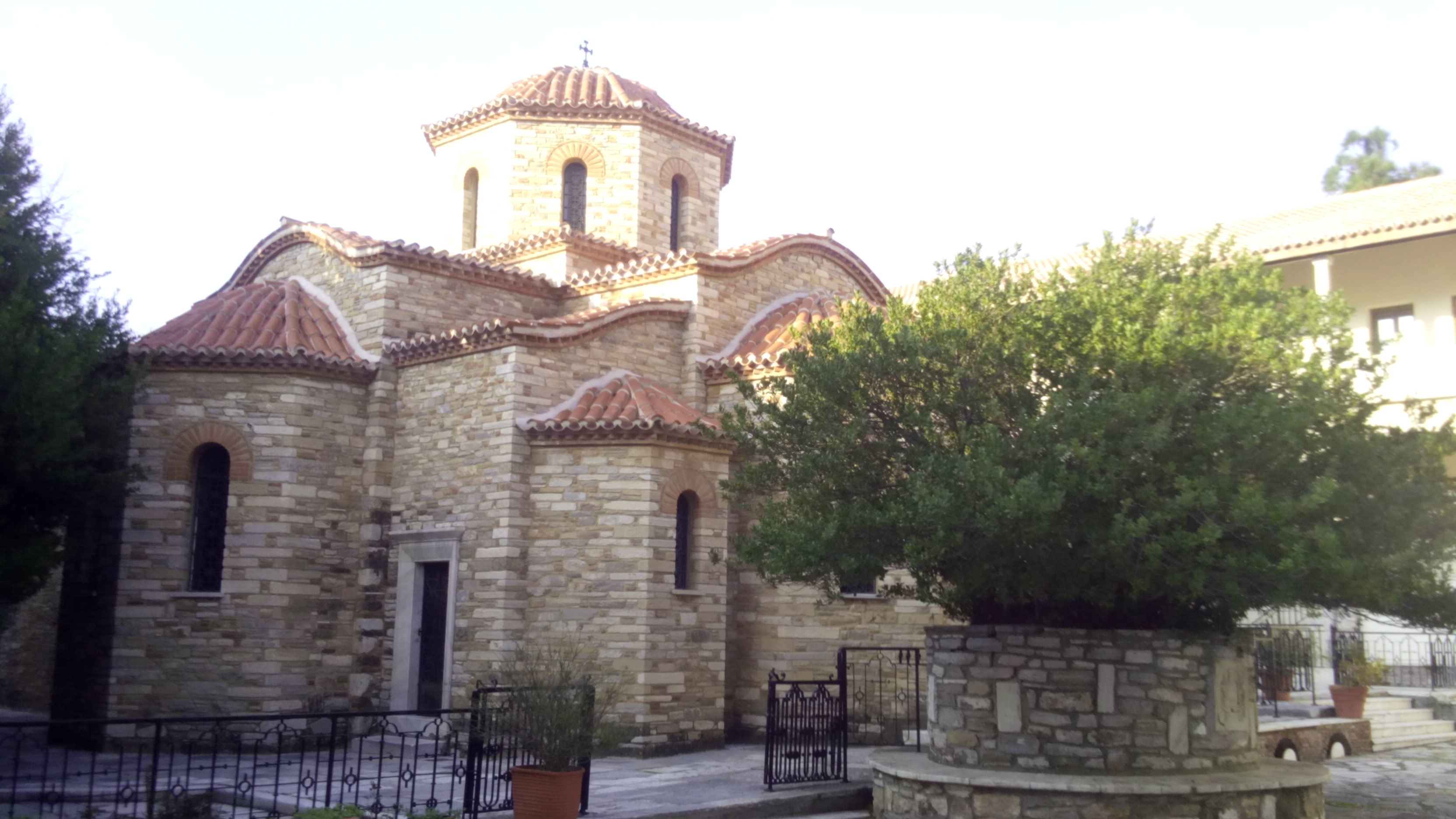 Holy Monastery of Penteli (Dormition of Mother of God)